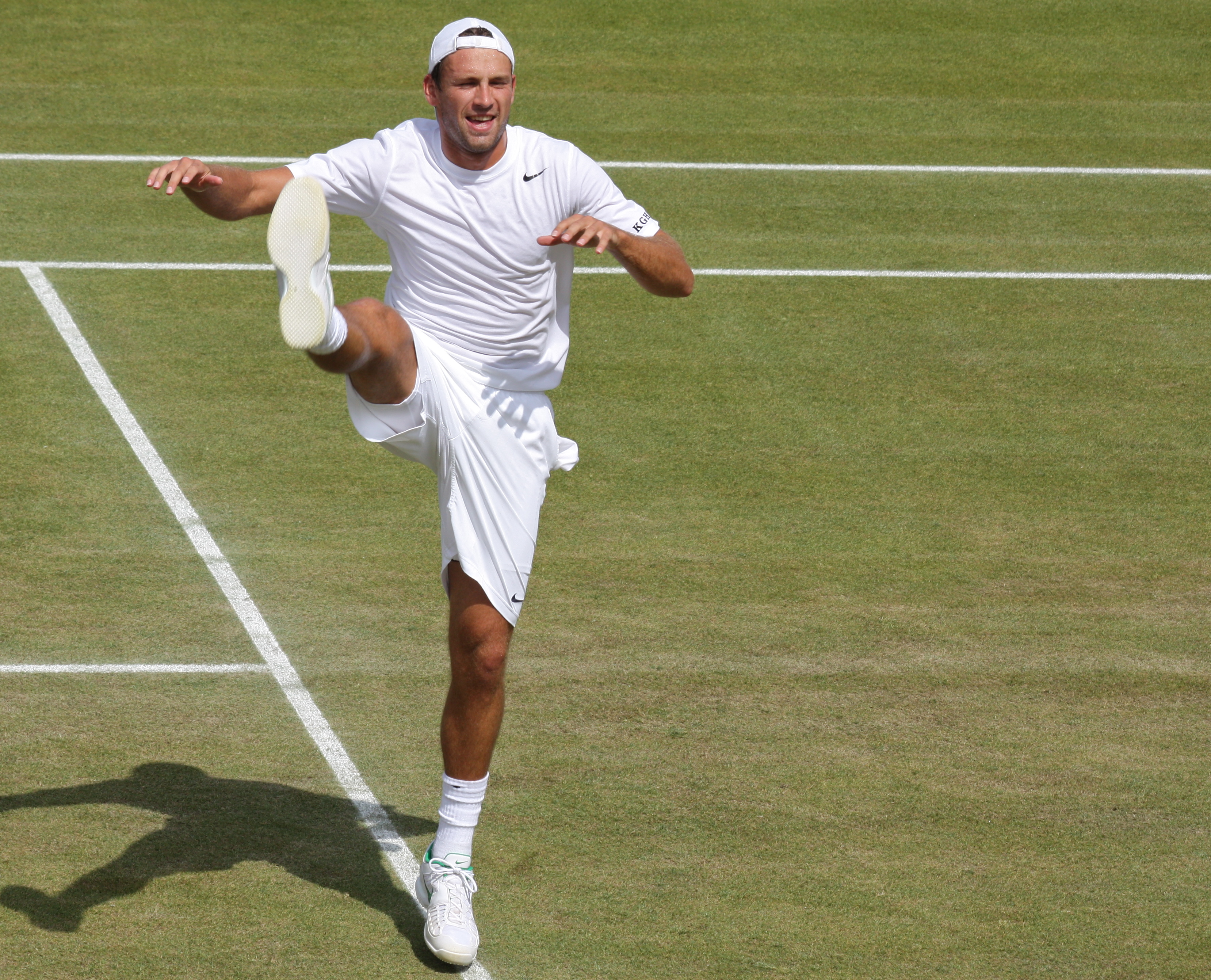 Łukasz Kubot, a Polish tennis player, performing his flagship can-can dance after the match against Gaël Monfils at the 2011 Wimbledon Championships on Saturday, 25 June 2011.